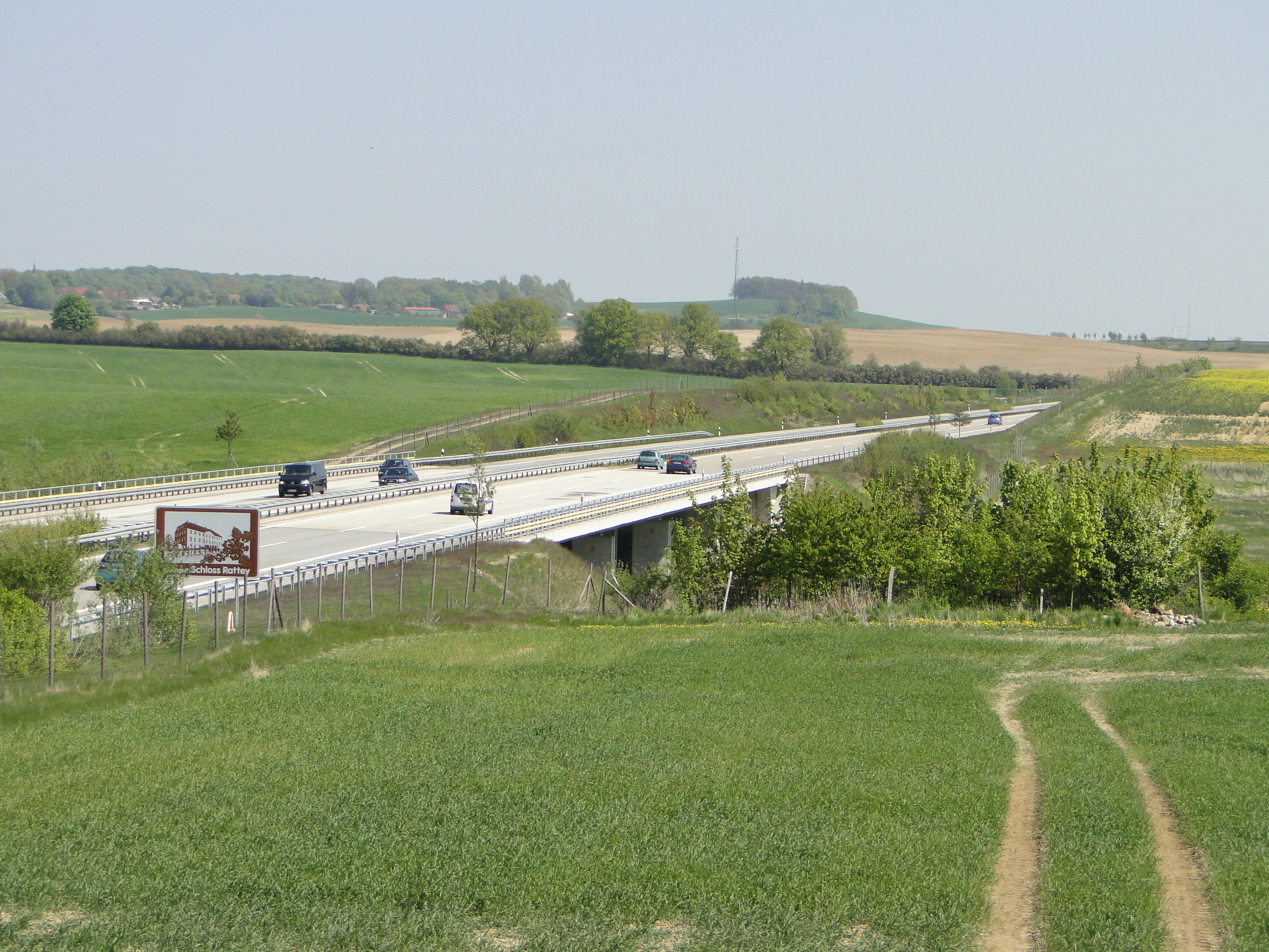 Bundesautobahn 20 in Voigtsdorf, district Mecklenburg-Strelitz, Mecklenburg-Vorpommern, Germany